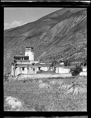 Sekhar Gutog (sras mkhar dgu thog) monastery in Lhodrag near the Bhutan border founded by Milarepa in the 11th century. The famous nine-storeyed tower can clearly be seen on the left. Harvested crops may be seen in the field in the foreground.